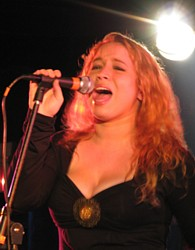 Eryn Shewell performs